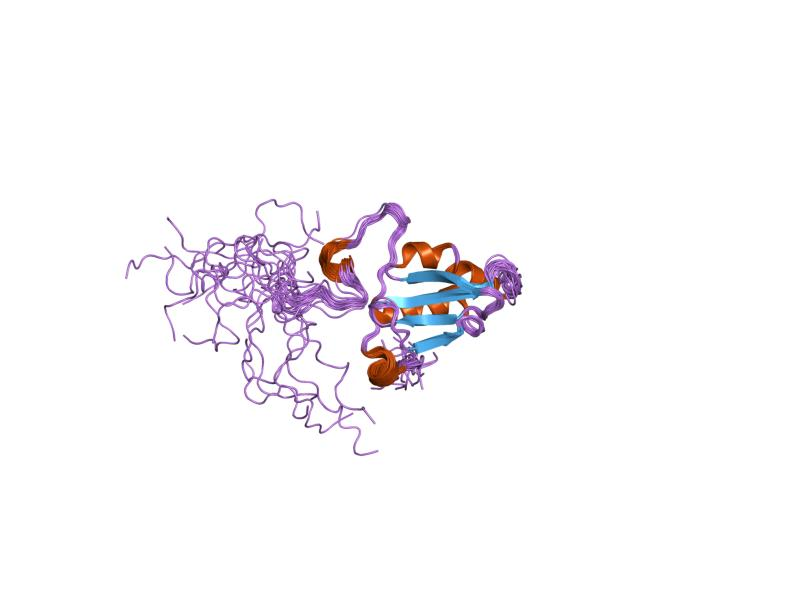 Cartoon representation of the molecular structure of protein registered with 2a2p code.